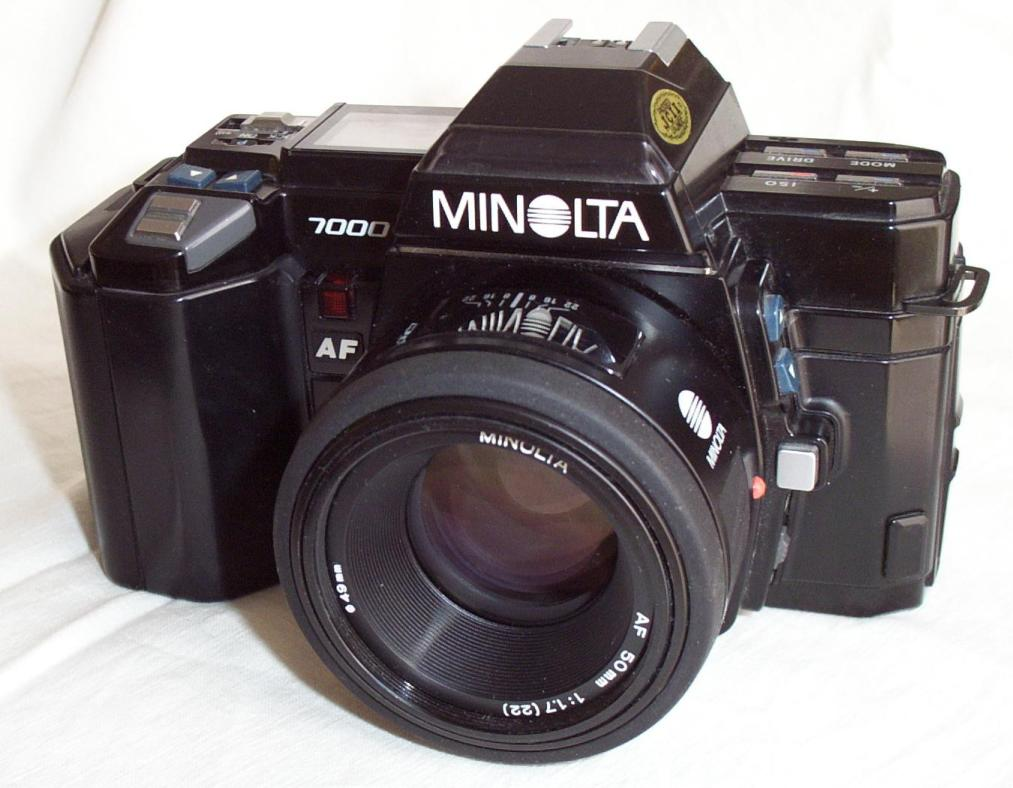 Minolta 7000 SLR with 50 mm lens.